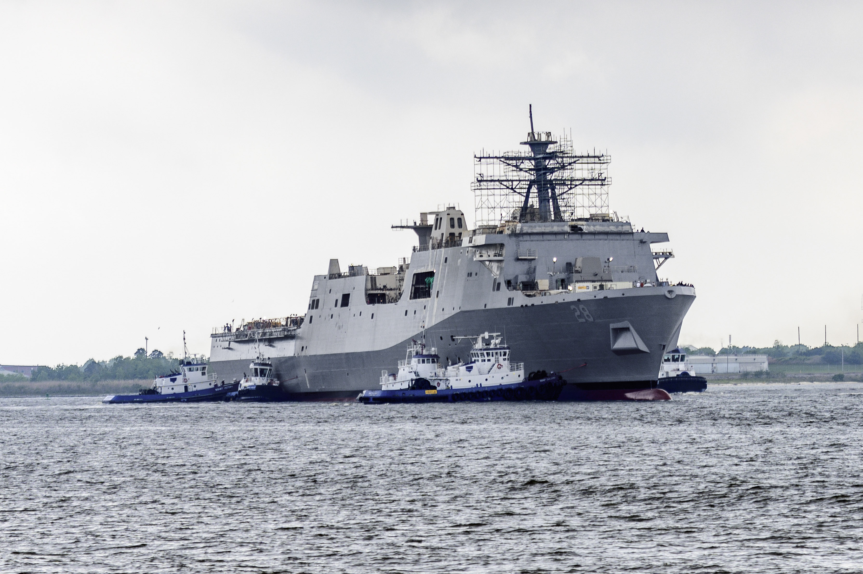 PASCAGOULA, Miss. - The future USS Fort Lauderdale (LPD 28) was successfully launched at the Huntington Ingalls Industries (HII) Ingalls Division shipyard in Pascagoula, Miss. on March 28.